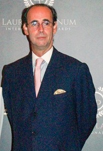 Picture of Fernando de Prado, spanish historian.